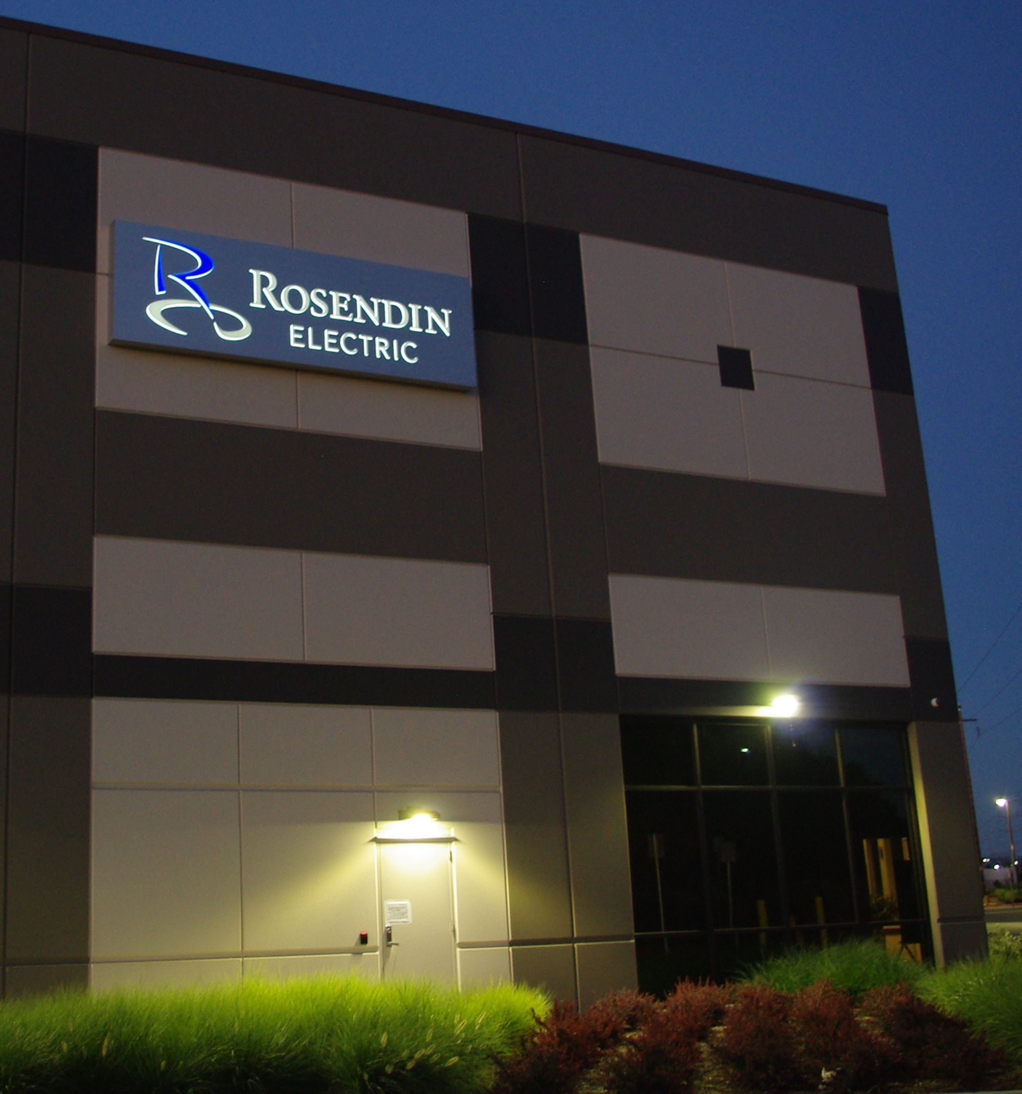 Rosendin office in July 2018 in Hillsboro, Oregon.